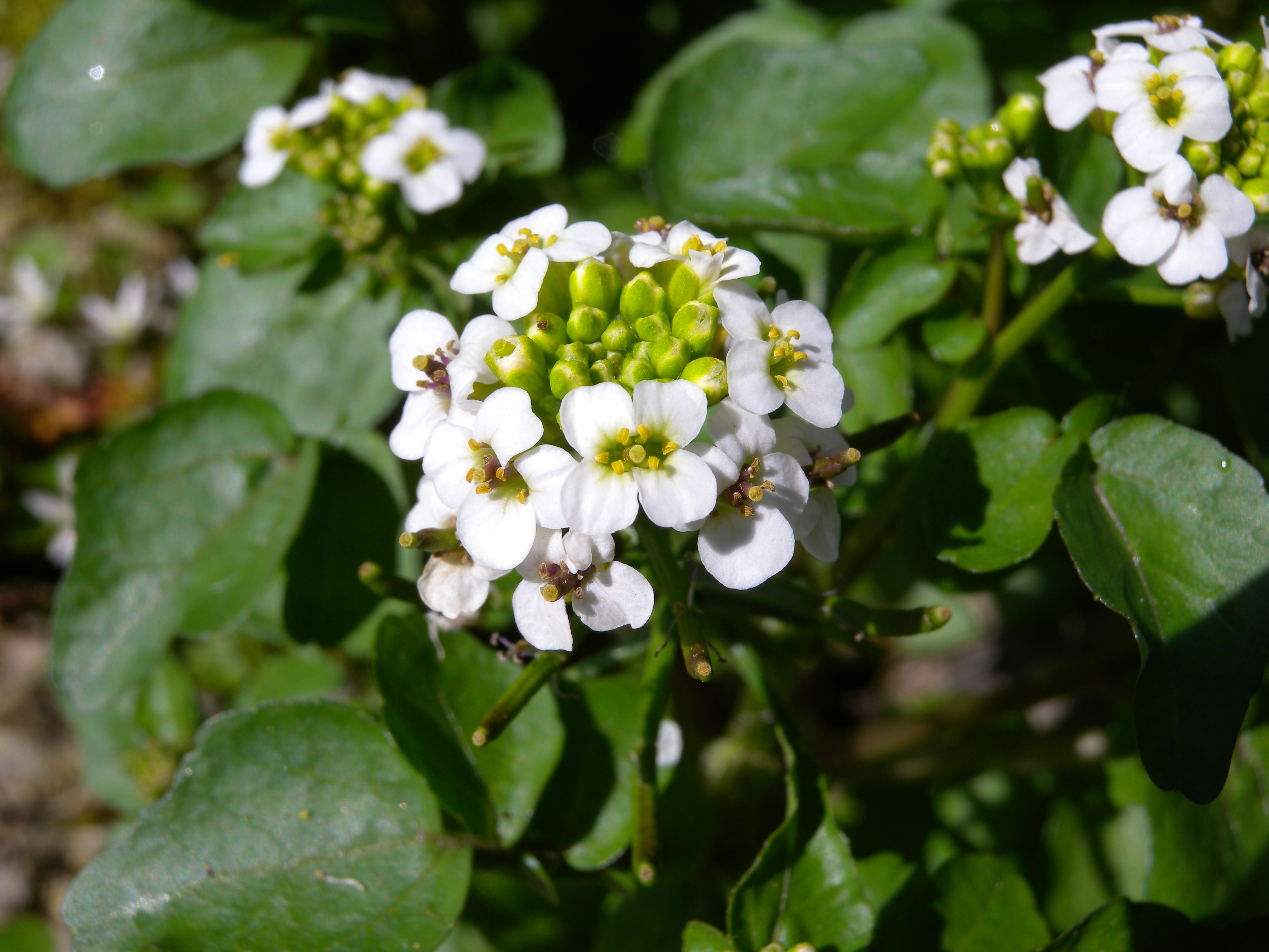 Flowers of Nasturtium officinale (Brassicaceae), Botanical Garden Bern, Switzerland